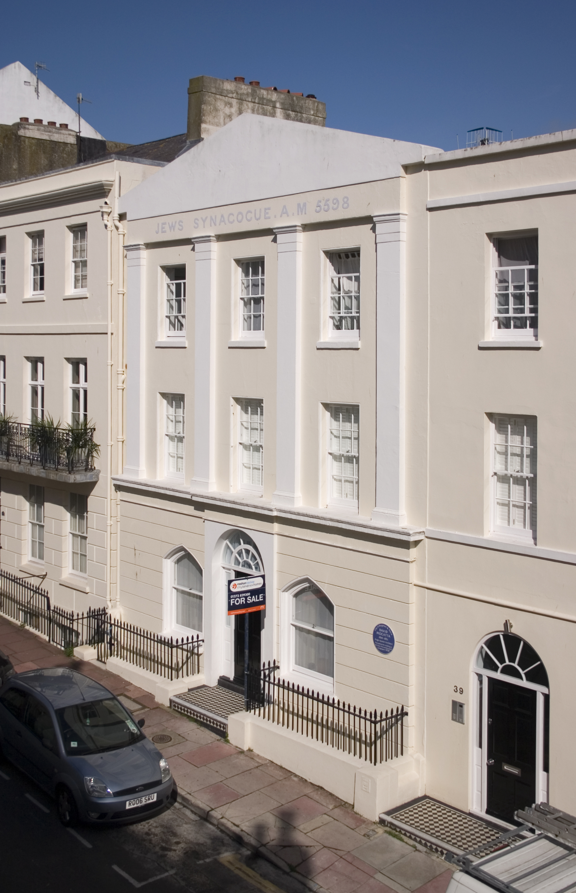 38–39 Devonshire Place, Brighton, Sussex, seen from the southwest. Built about 1825 as a synagogue, now converted in flats.